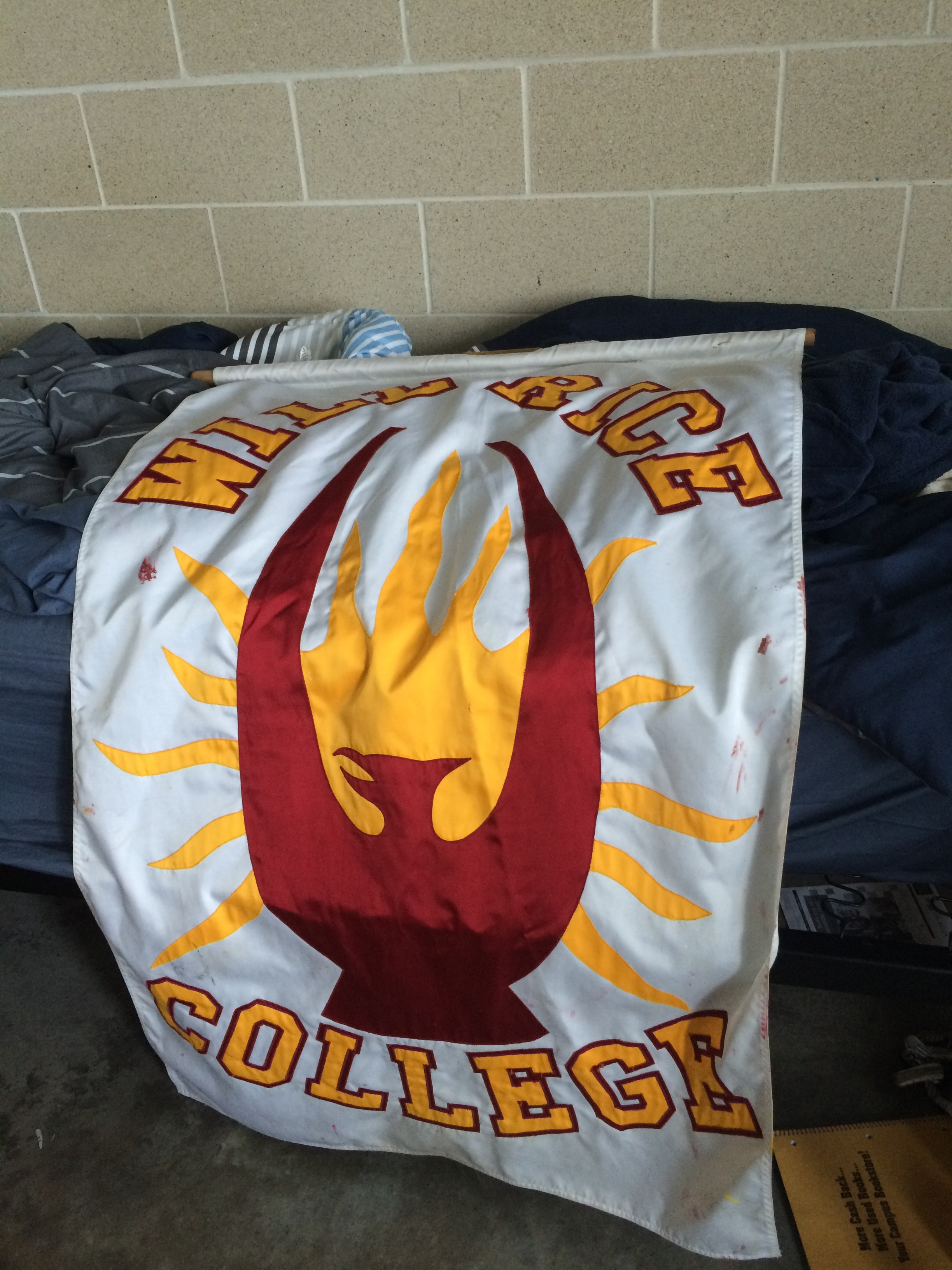 One of Duncan’s favorite traditions is stealing Will Rice’s flag. Above, the flag is draped across the bed of a certain Duncan lad in the Spring of 2016.